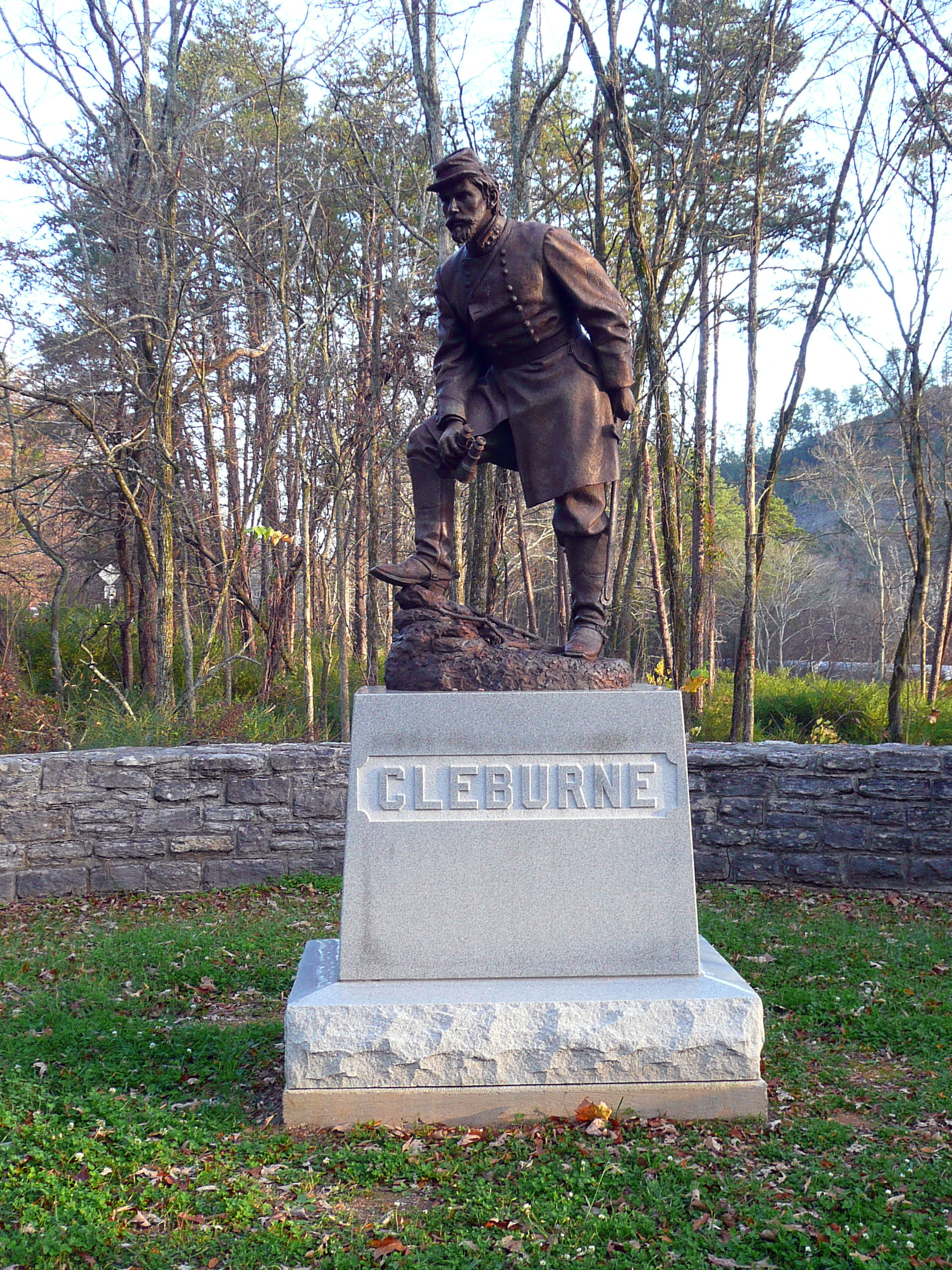 Statue of Confederate Gen. Patrick R. Cleburne at Ringgold, Georgia.